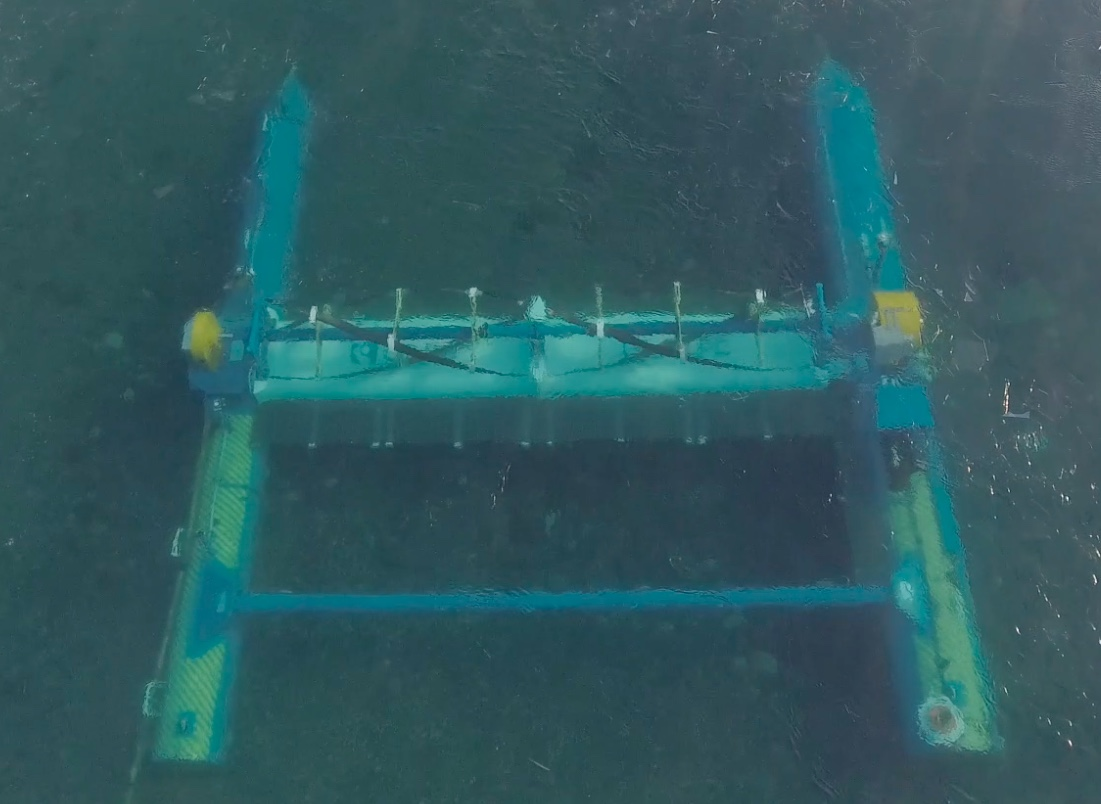 The RivGen® Power System converts energy from free-flowing rivers and tides into electricity.